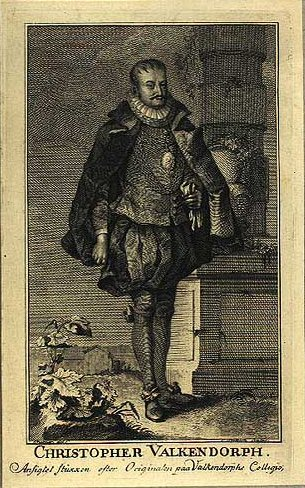 Christoffer Valkendorf by C. Fritzsch